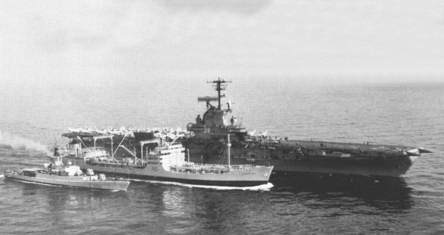 The U.S. Navy aircraft carrier USS Shangri-La (CVA-38) and the Italian frigate Carlo Martgottini (F595) are refueld by the British fleet oiler RFA Orangeleaf (A80) during a NATO exercise. Shangri-La, with assigned Carrier Air Wing 8 (CVW-8) was deployed to the Mediterranen Sea from 15 November 1967 to 4 August 1968. Note Shangri-La´s pennant number, painted unusually low on the island.